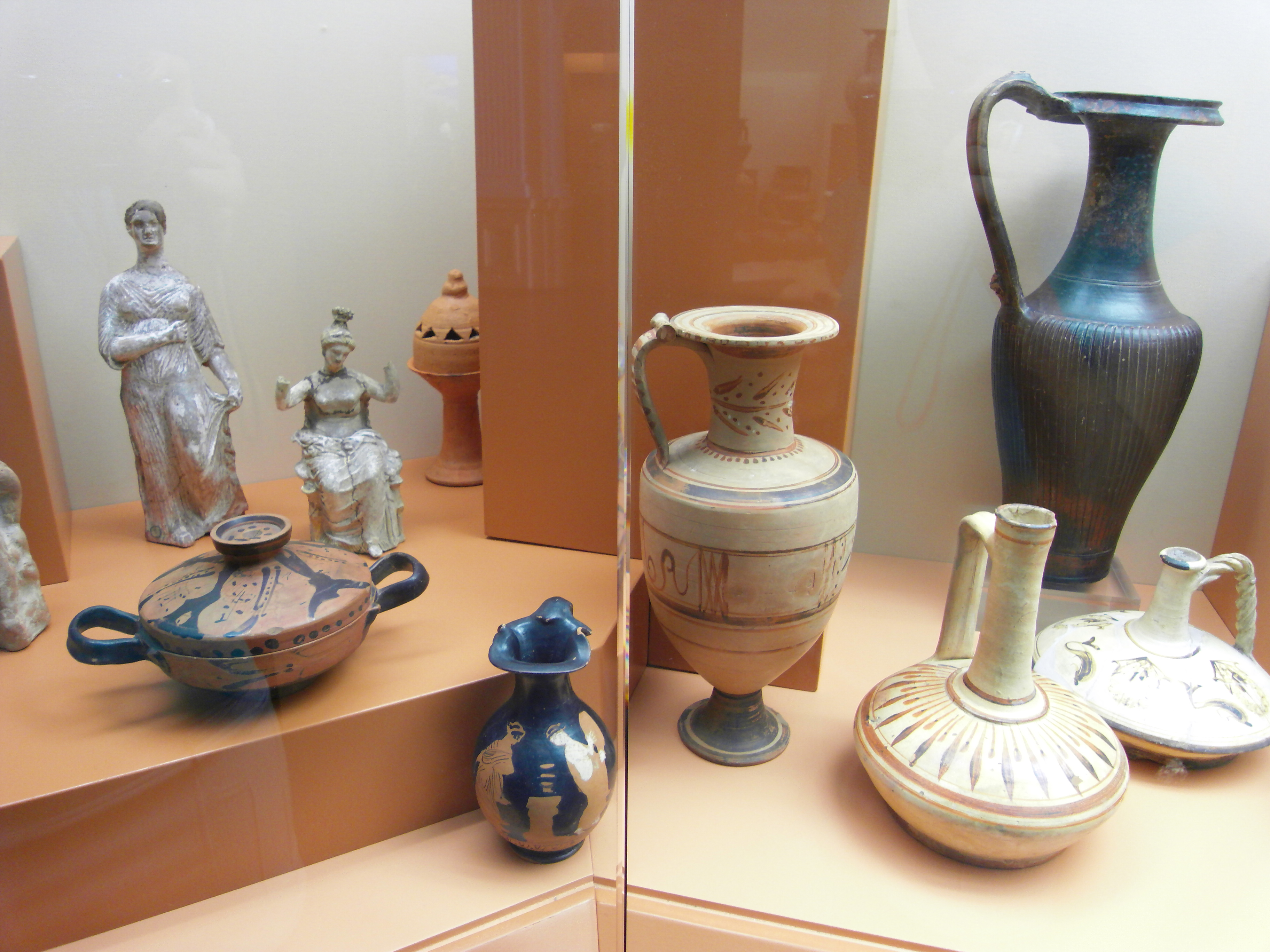 Pottery of ancient Greece in Archaeological Museum of Odessa